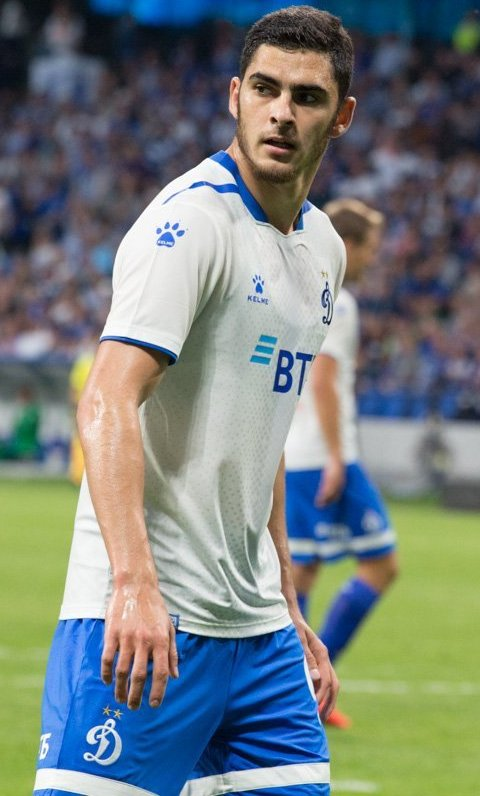 Ramil Sheydayev with Dynamo Moscow in a game against FC Rubin Kazan